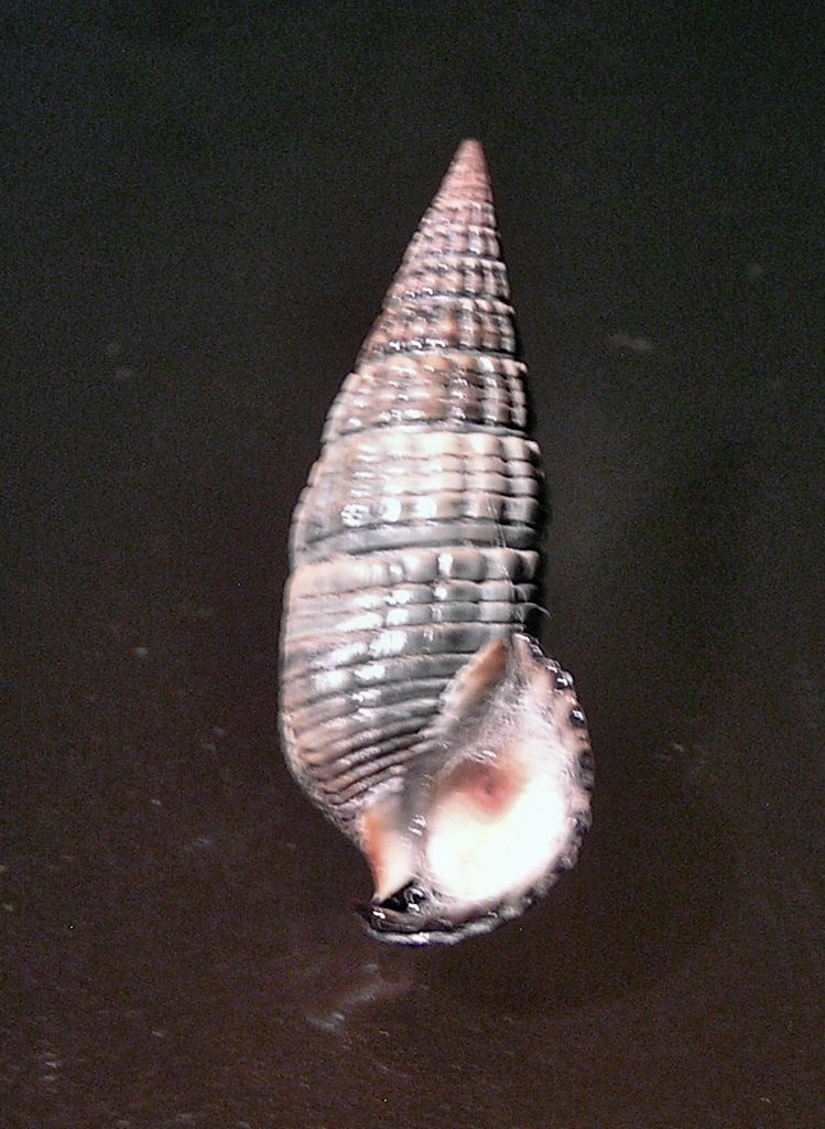 Terebralia semistriata (Mörch, 1852) , a sea snail from the family Potamididae; South China Sea